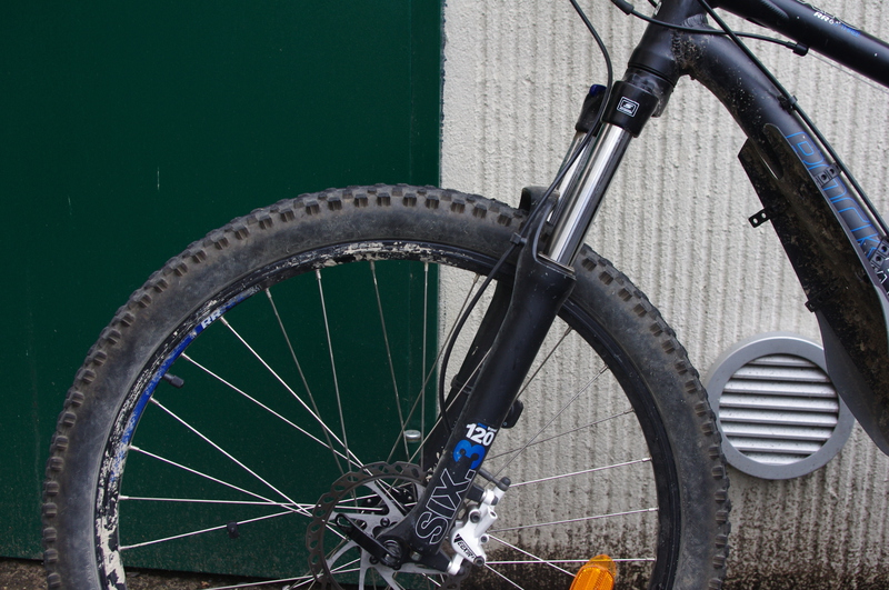 Front suspension on an entry level montain bike